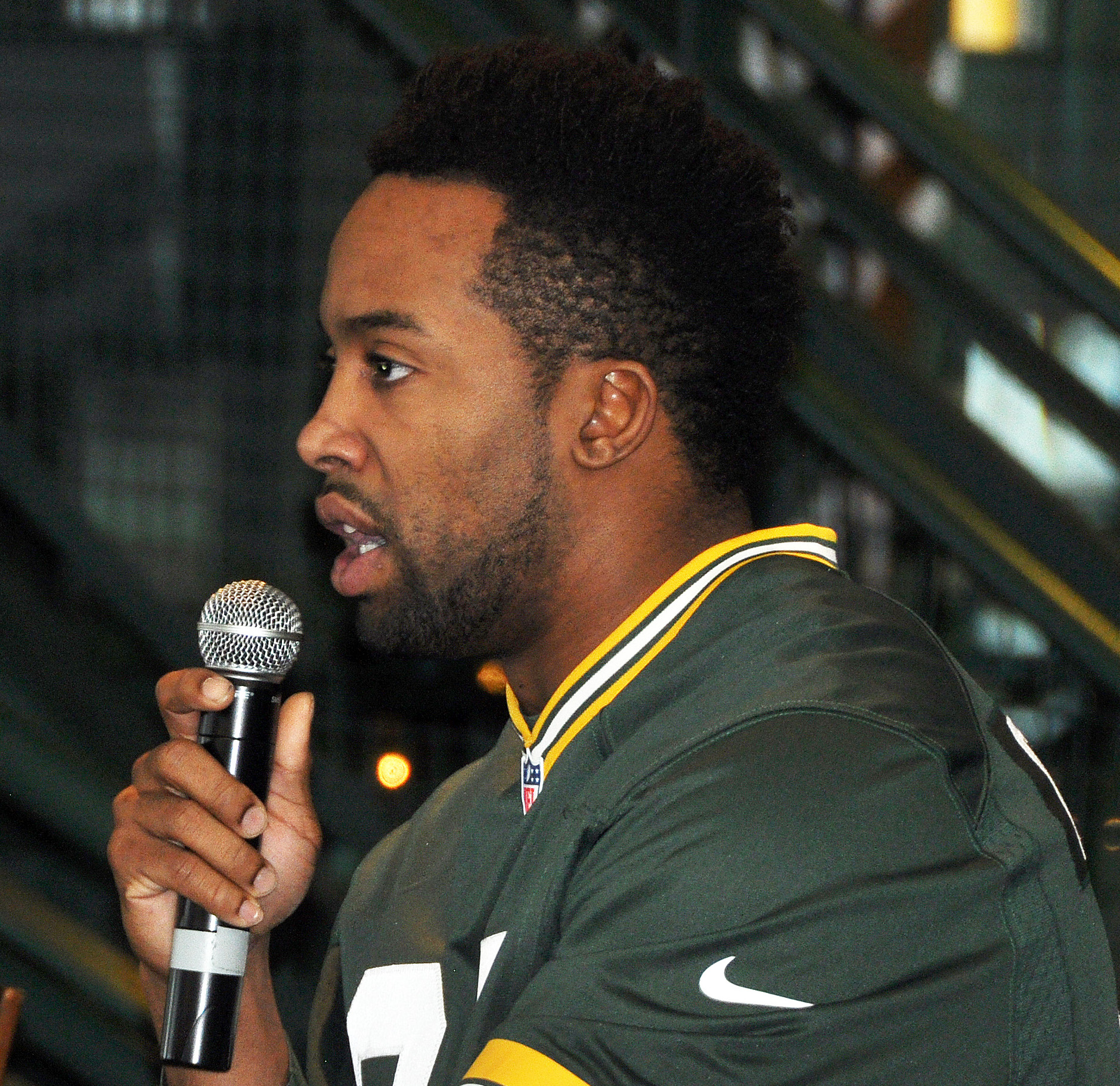 Green Bay Packers running back, John Crockett, speaking to Wisconsin National Guard Challenge Academy cadets.